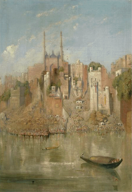 The Mahomeden Temple at Bissasir Ghat, Benares 'George Landseer, c. 1861